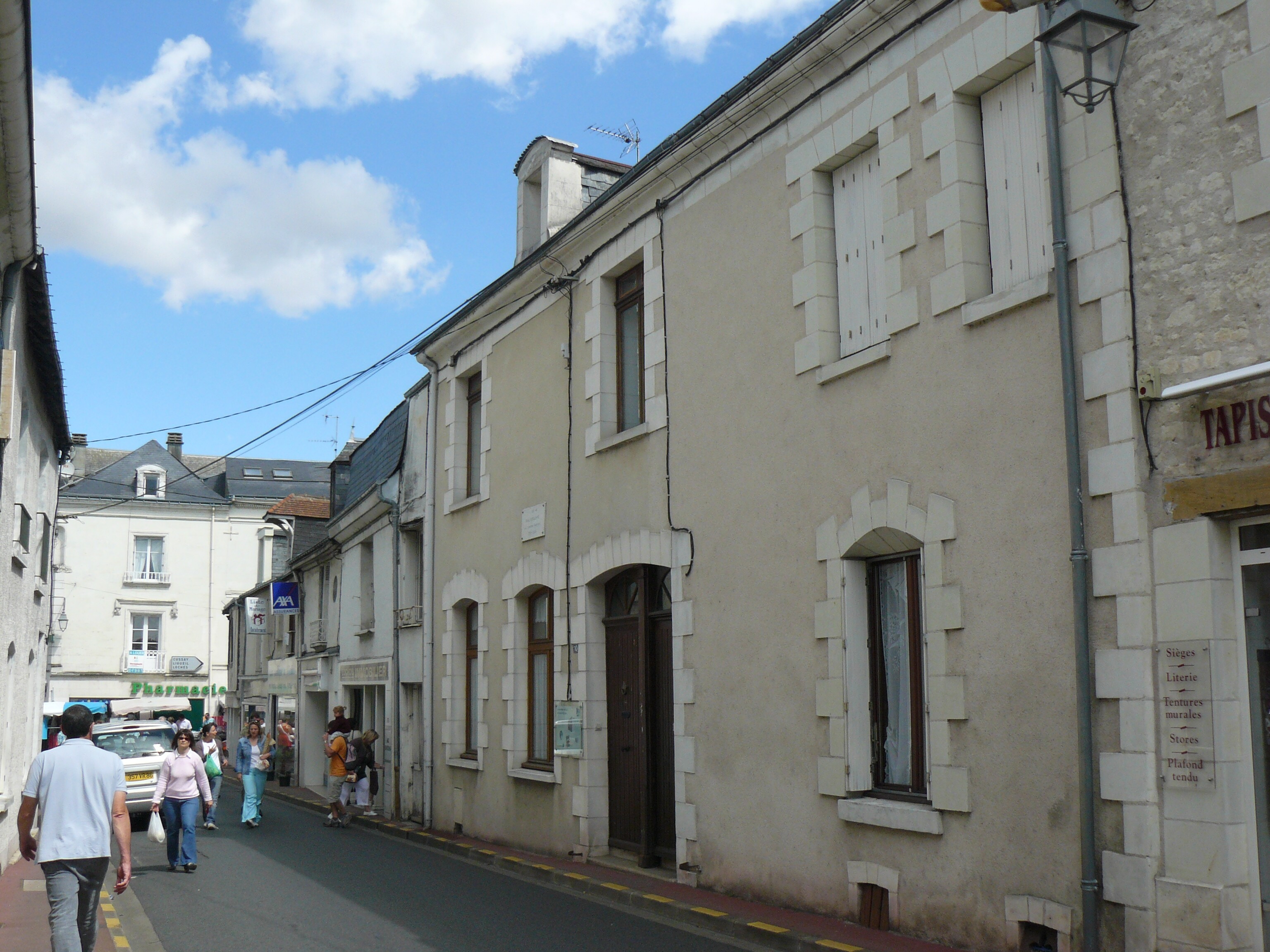 René BOYLESVES his home in DESCARTES